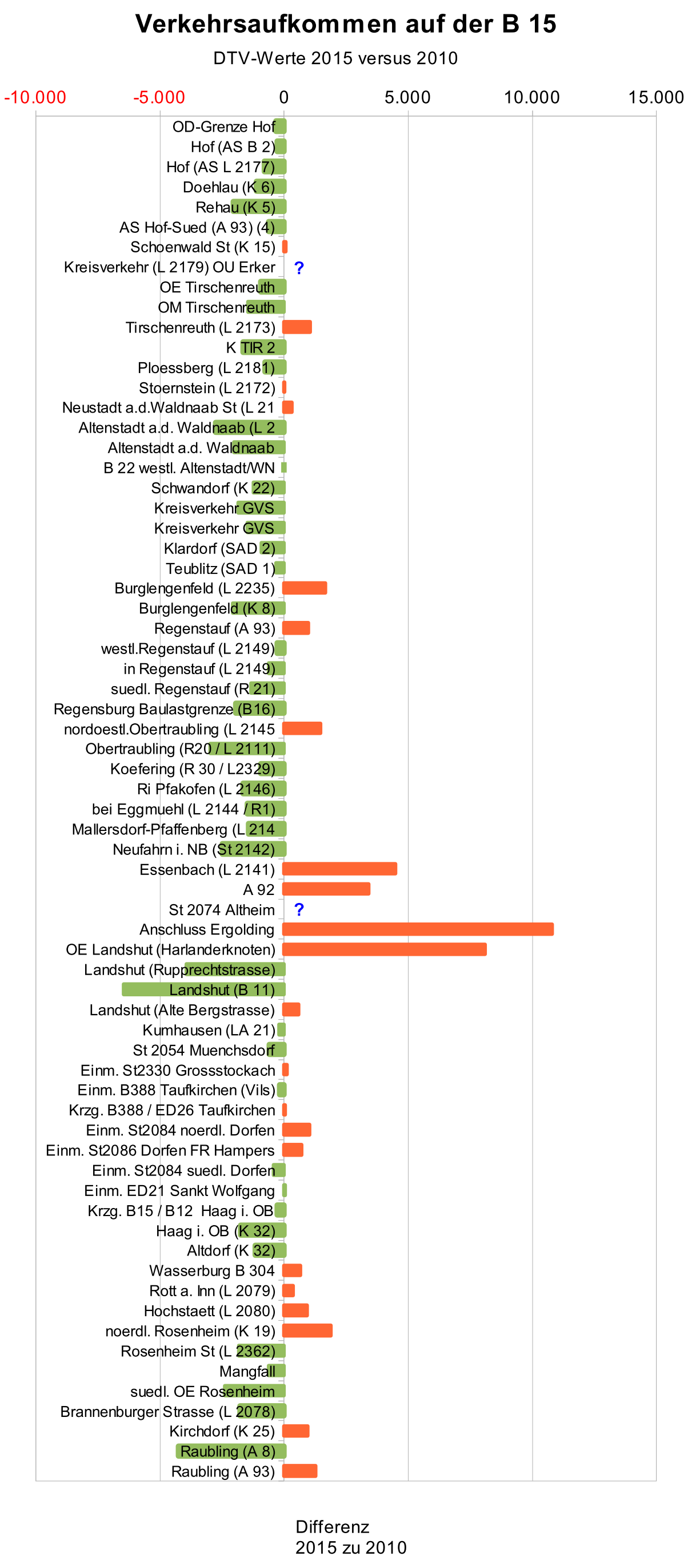 This graph shows the variation in traffic on German road B 15 counted on different measuring points in the years 2010 and 2015; the source of the measuring results is and